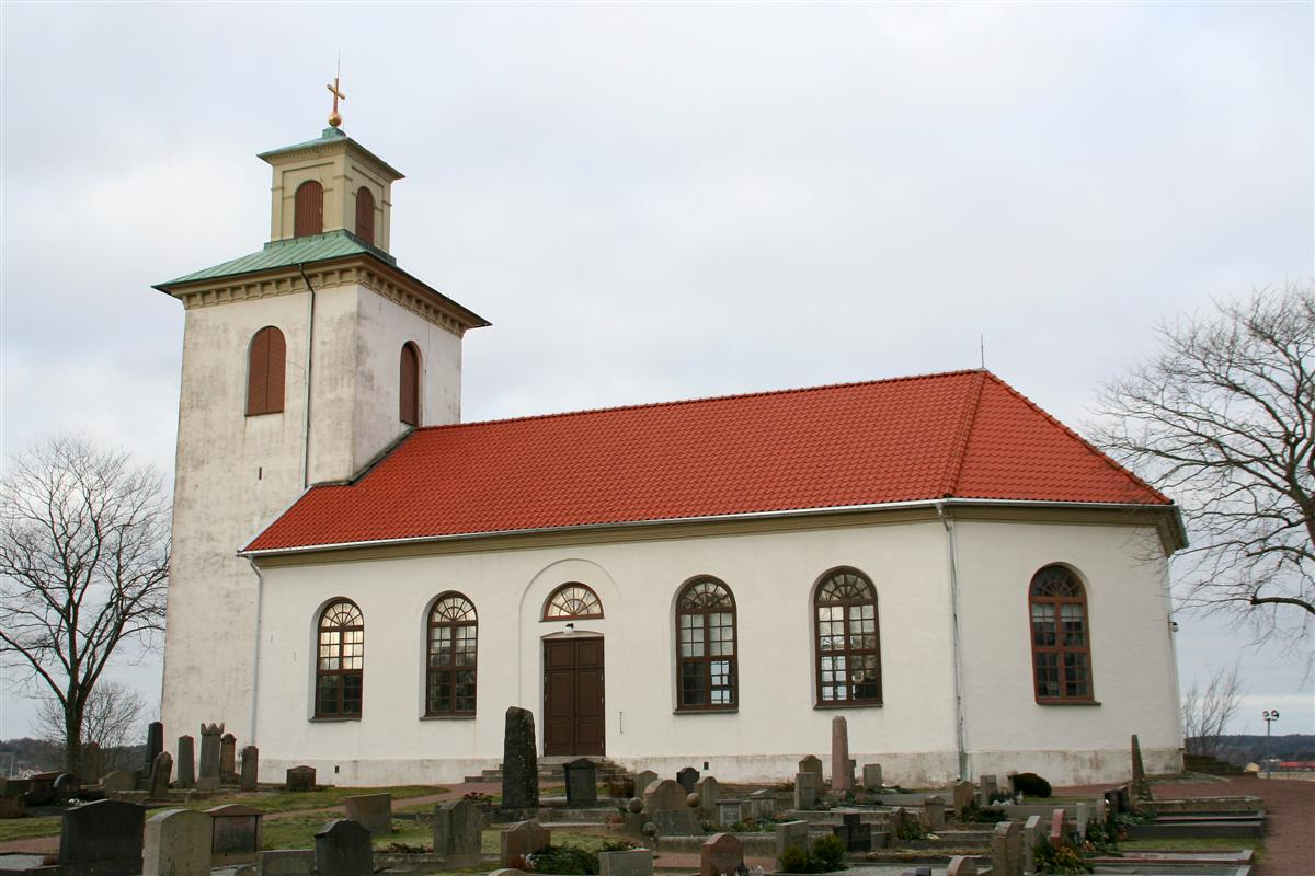 Harestad Church